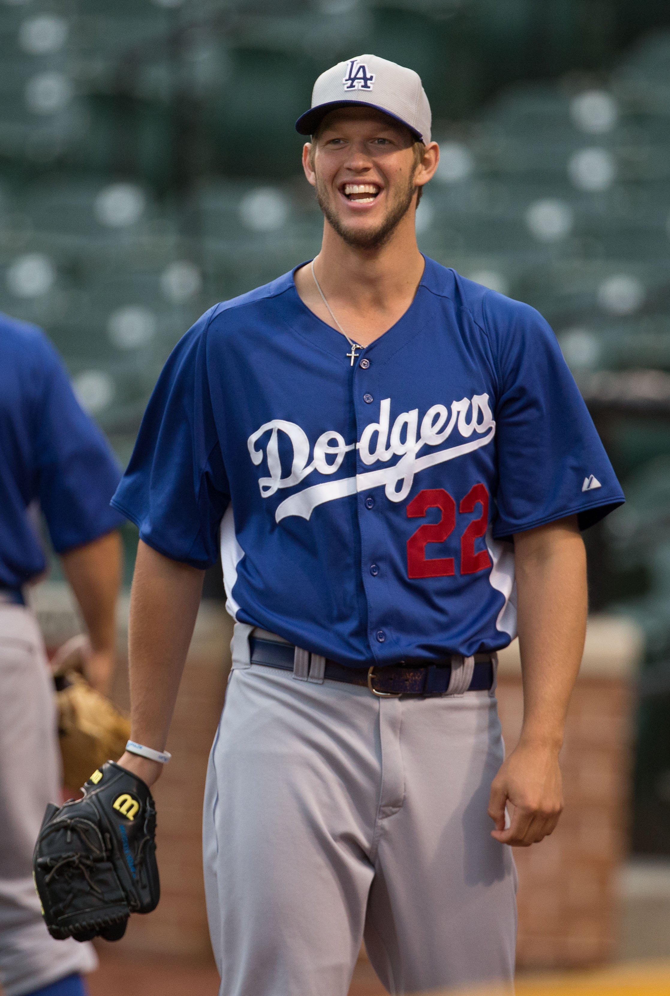 Los Angeles Dodgers at Baltimore Orioles April 19, 2013